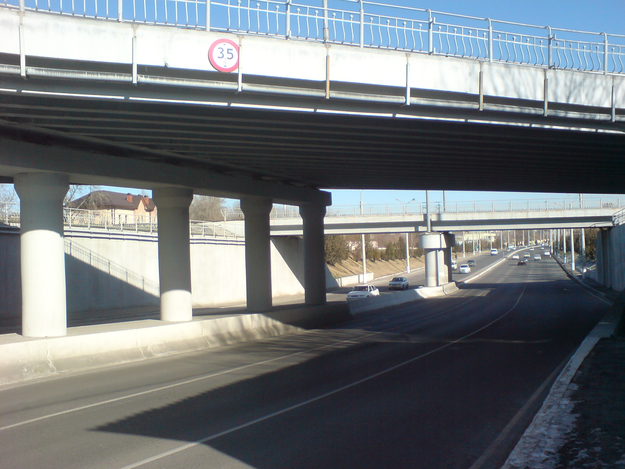 Bridges (Small belt road and Tashkent - Moscow railway line) through Ziyolilar street, Tashkent city